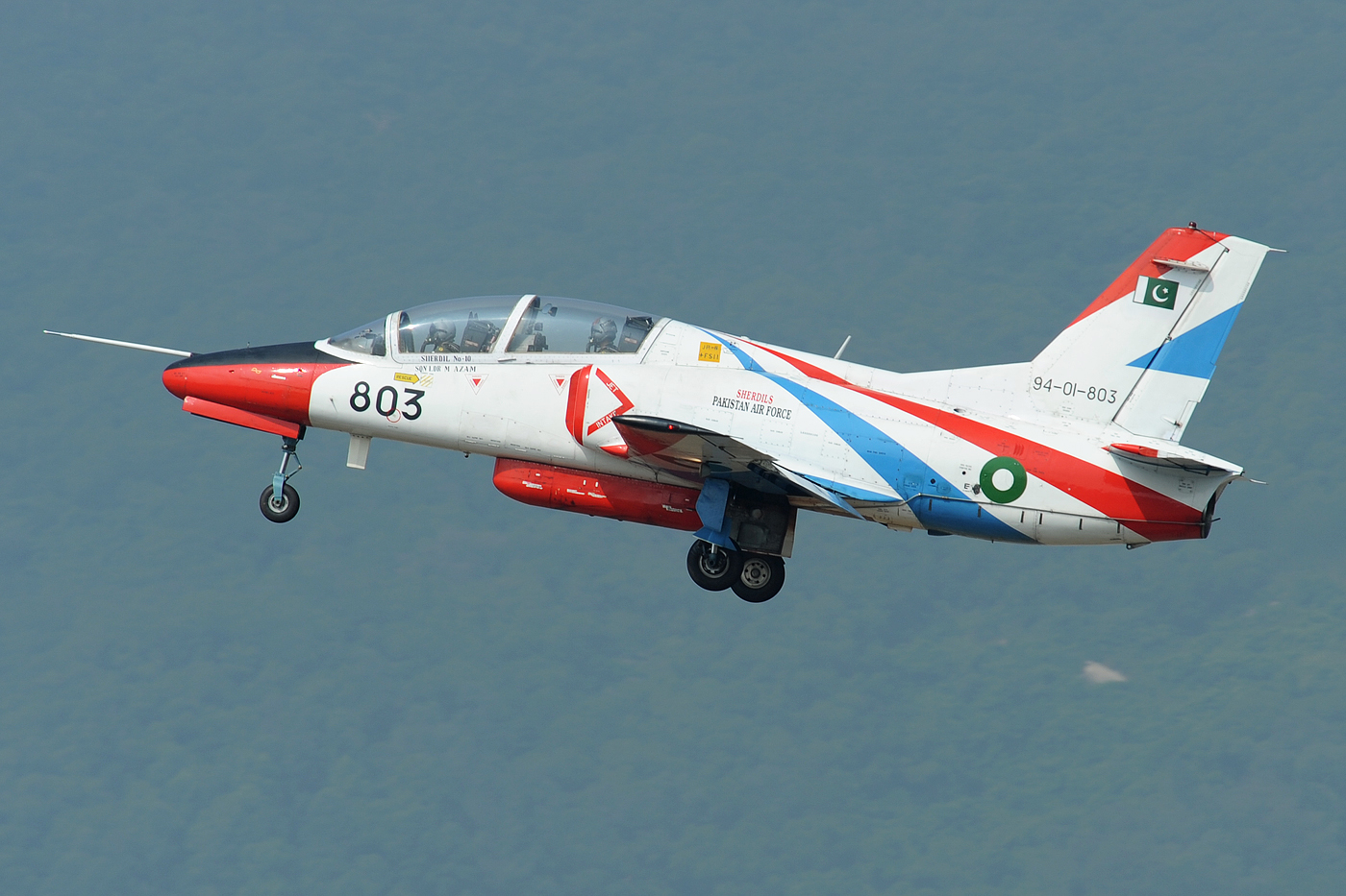 Zhuzhai Airshow 2010